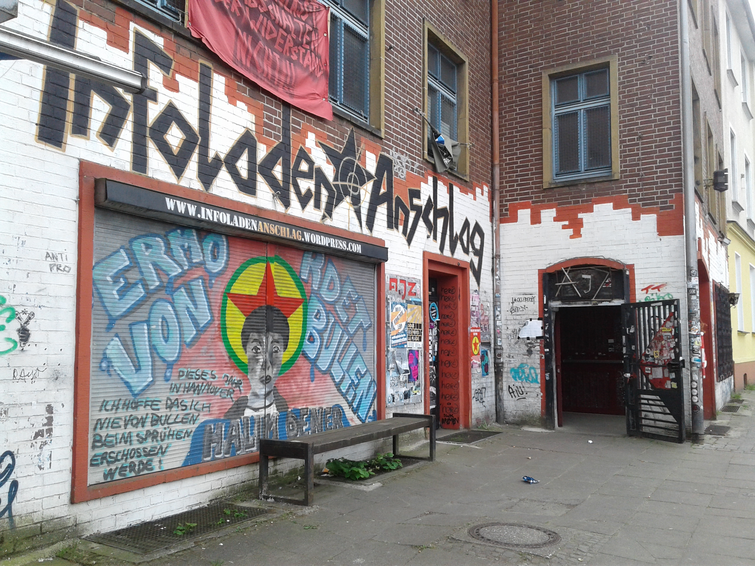 Ajz Bielefeld